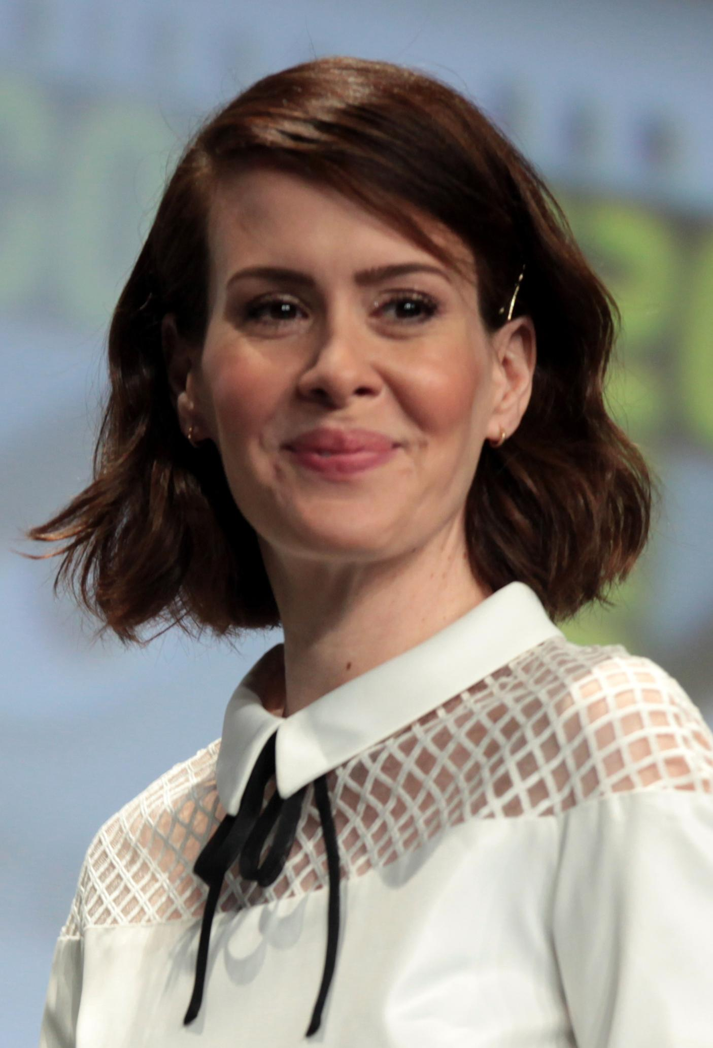 Sarah Paulson at the 2014 San Diego Comic Con International, for "Entertainment Weekly: Women Who Kick Ass", at the San Diego Convention Center in San Diego, California.